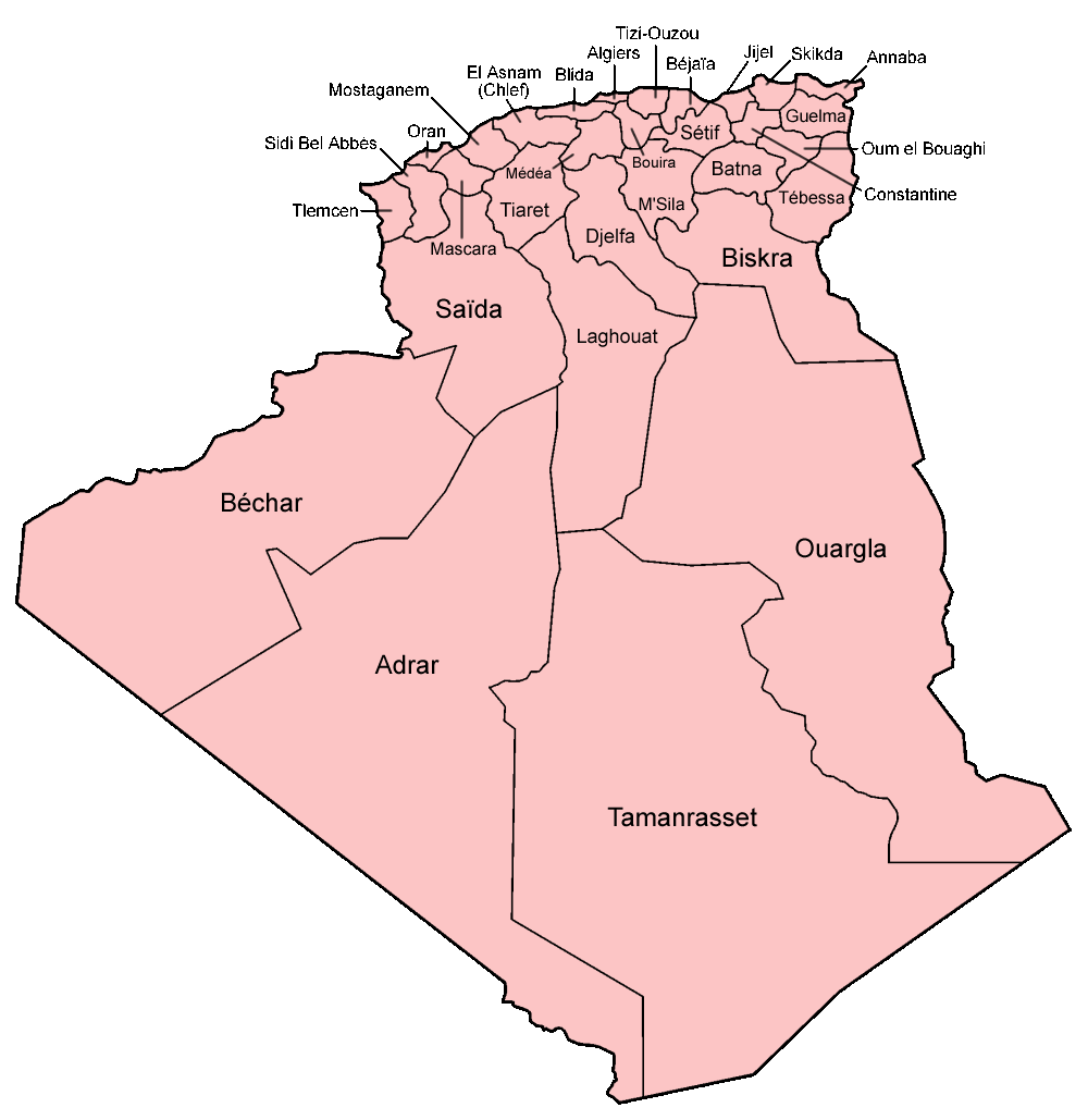 Map of the departments of Algeria as they were from 1974 to 1983. In June 1974, the fifteen departments were reorganized into the 31 departments in this map. On December 15 1983, the departments were reorganized as 48 provinces. Made by User:Golbez. Please tell me if there are any inaccuracies with this map, or if you want a blank version.